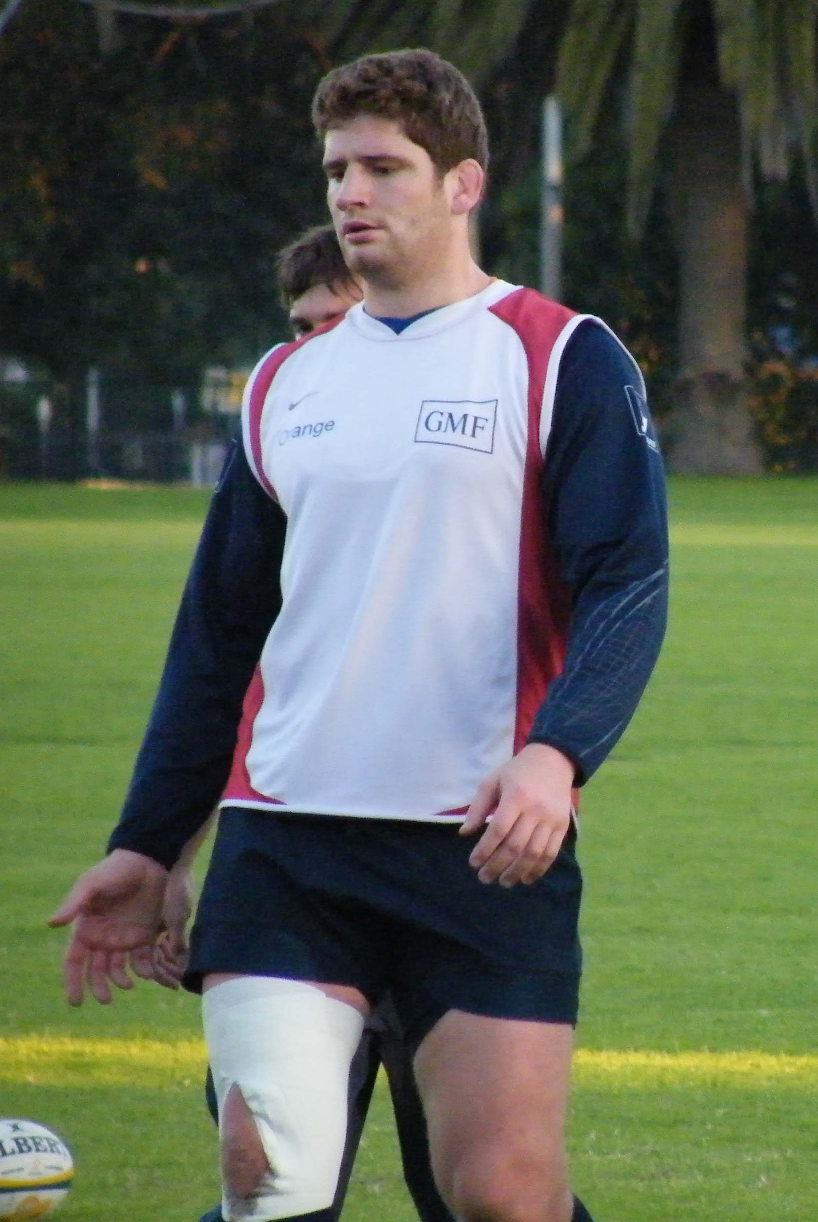 Pascal Pape - French Rugby Union Training - Moore Park, Sydney 23 June 2009.